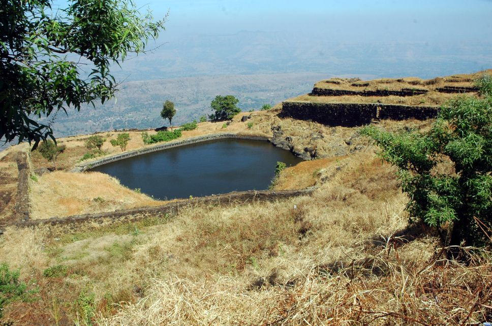 Padmavati talav at the summit of Rajgad fort, Maharashtra, India